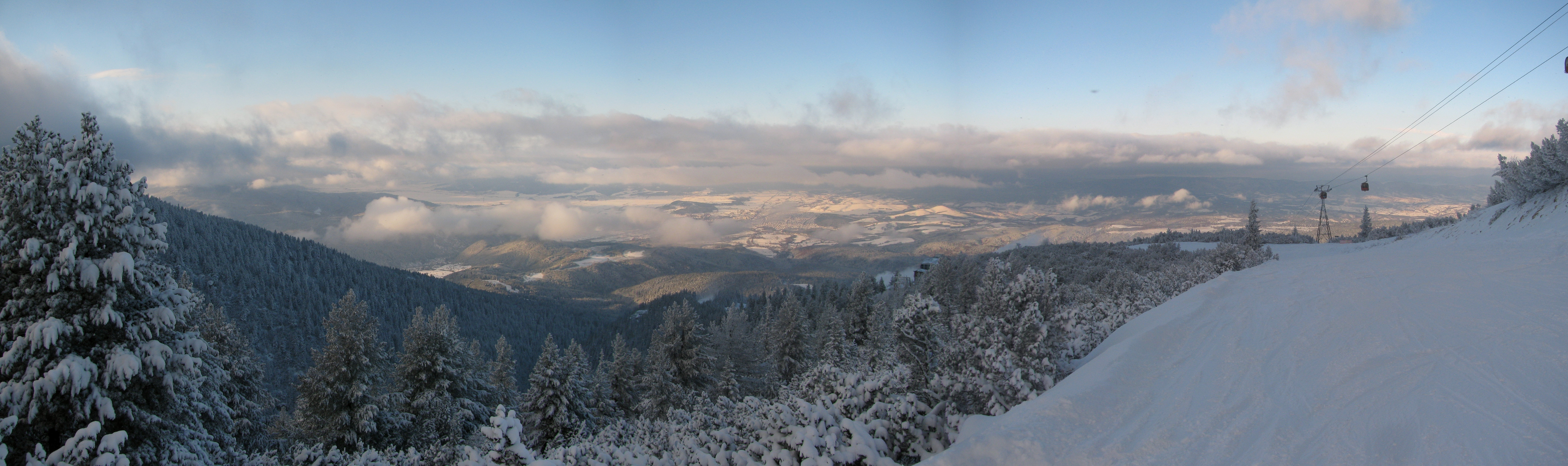 Panoramic view of Samokov valley from Borovets.